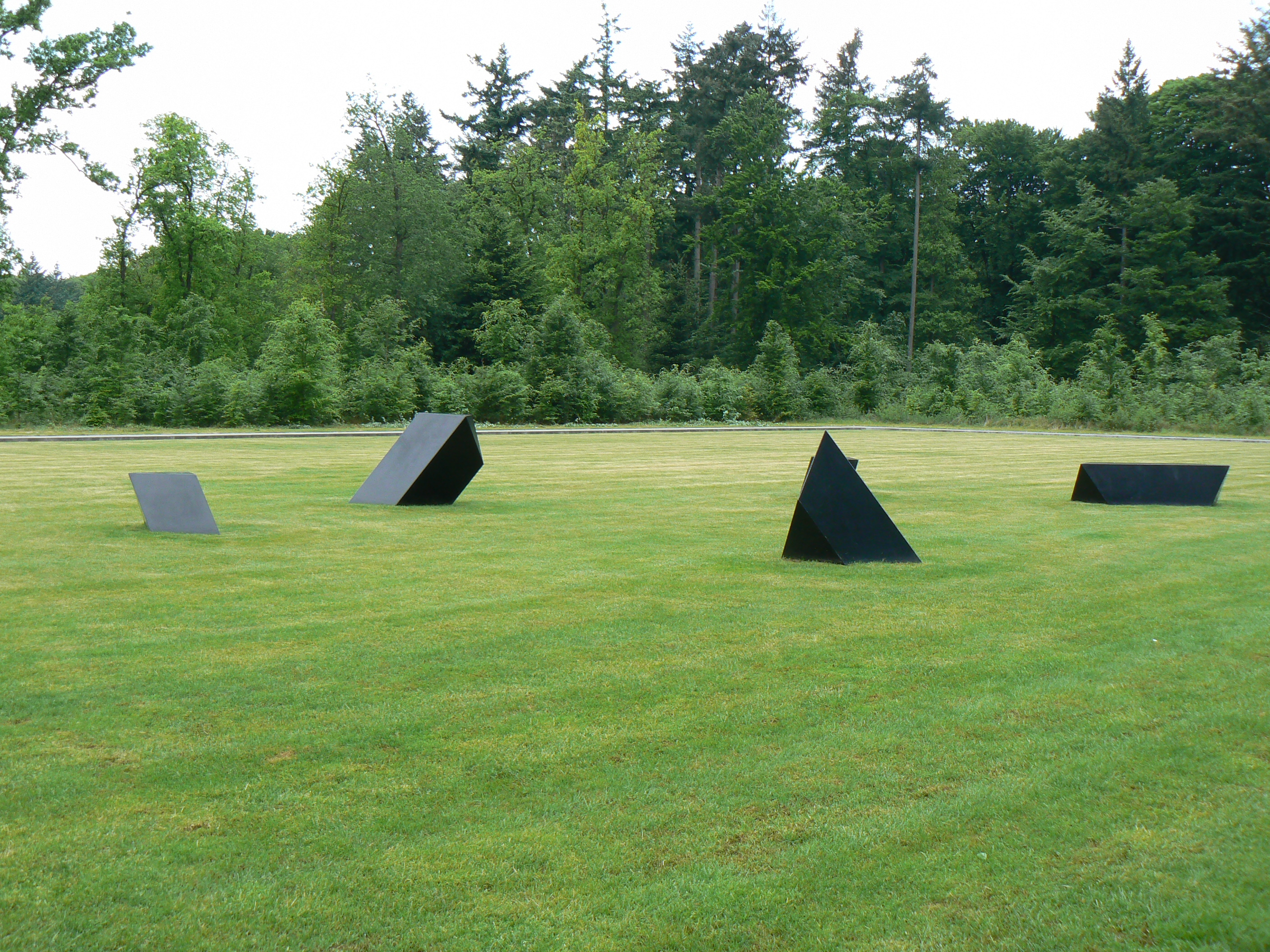 The outdoor sculpture Wandering Rocks (5/5) (1967) by Tony Smith at the Kröller-Müller Museum in the Netherlands